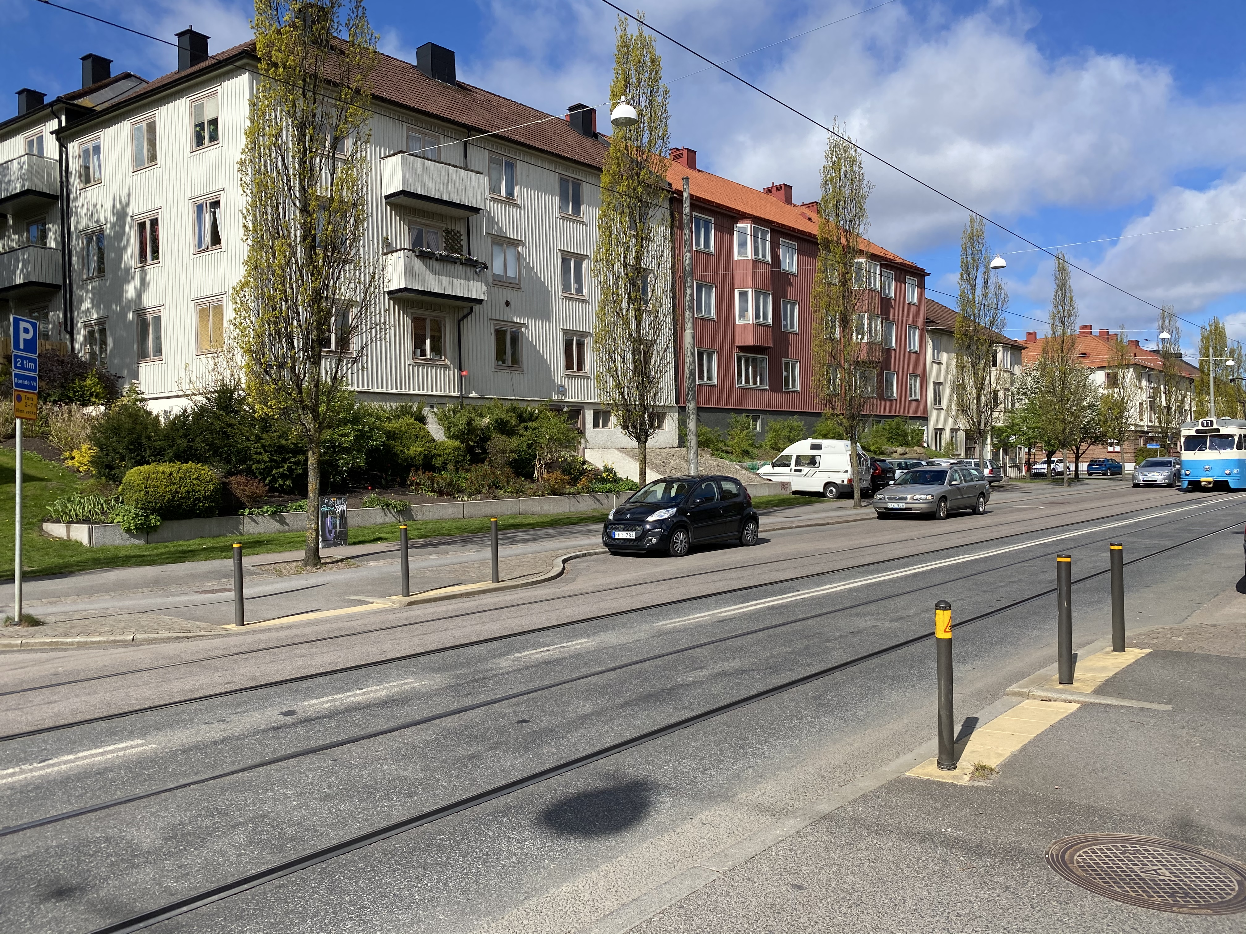 This is a place marked as suitable for pedestrians to cross the street, but where motor traffic has right of way.